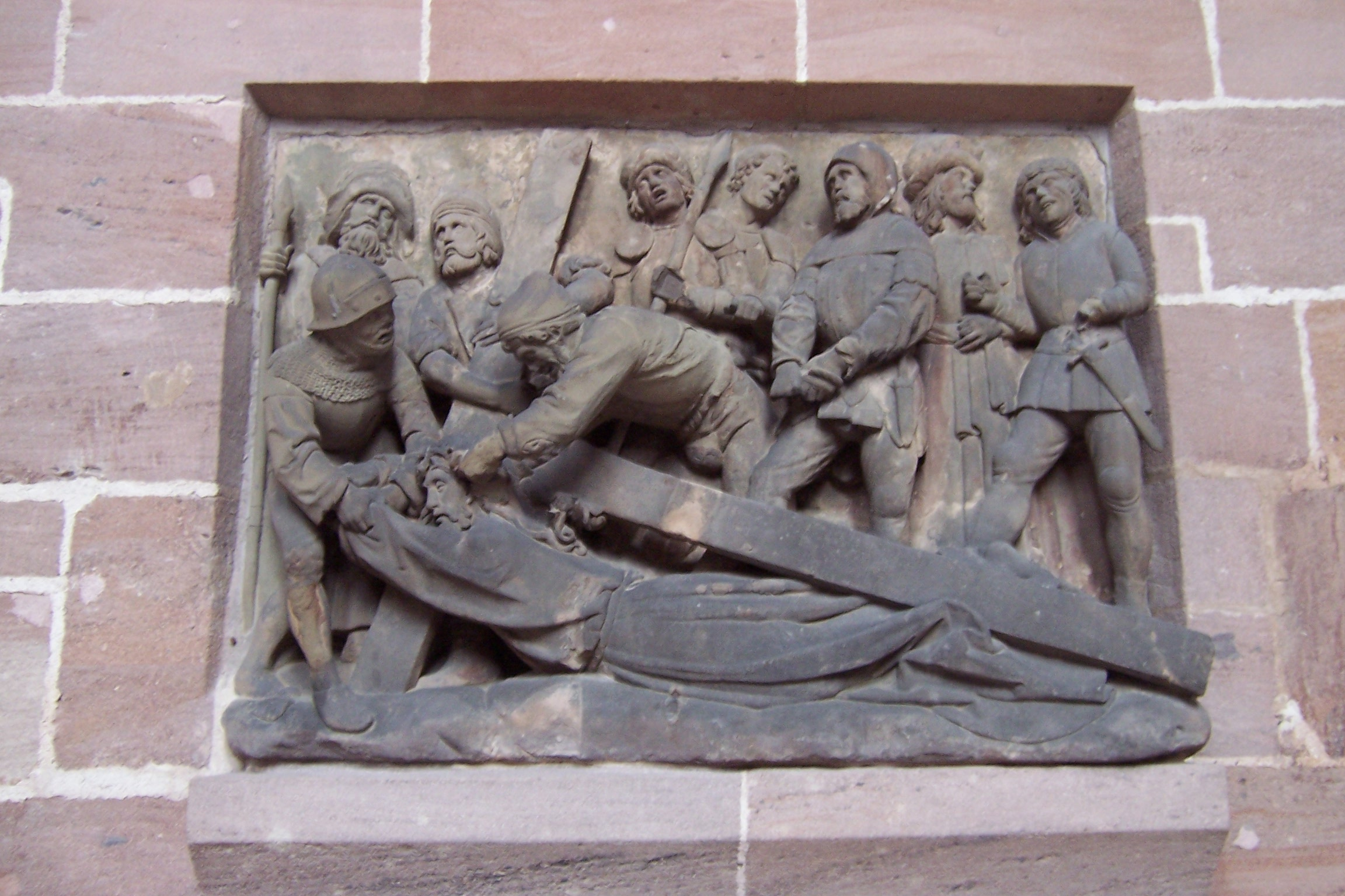 Station of the Nürnberg way of the cross, today in the Germanisches Nationalmuseum Nürnberg